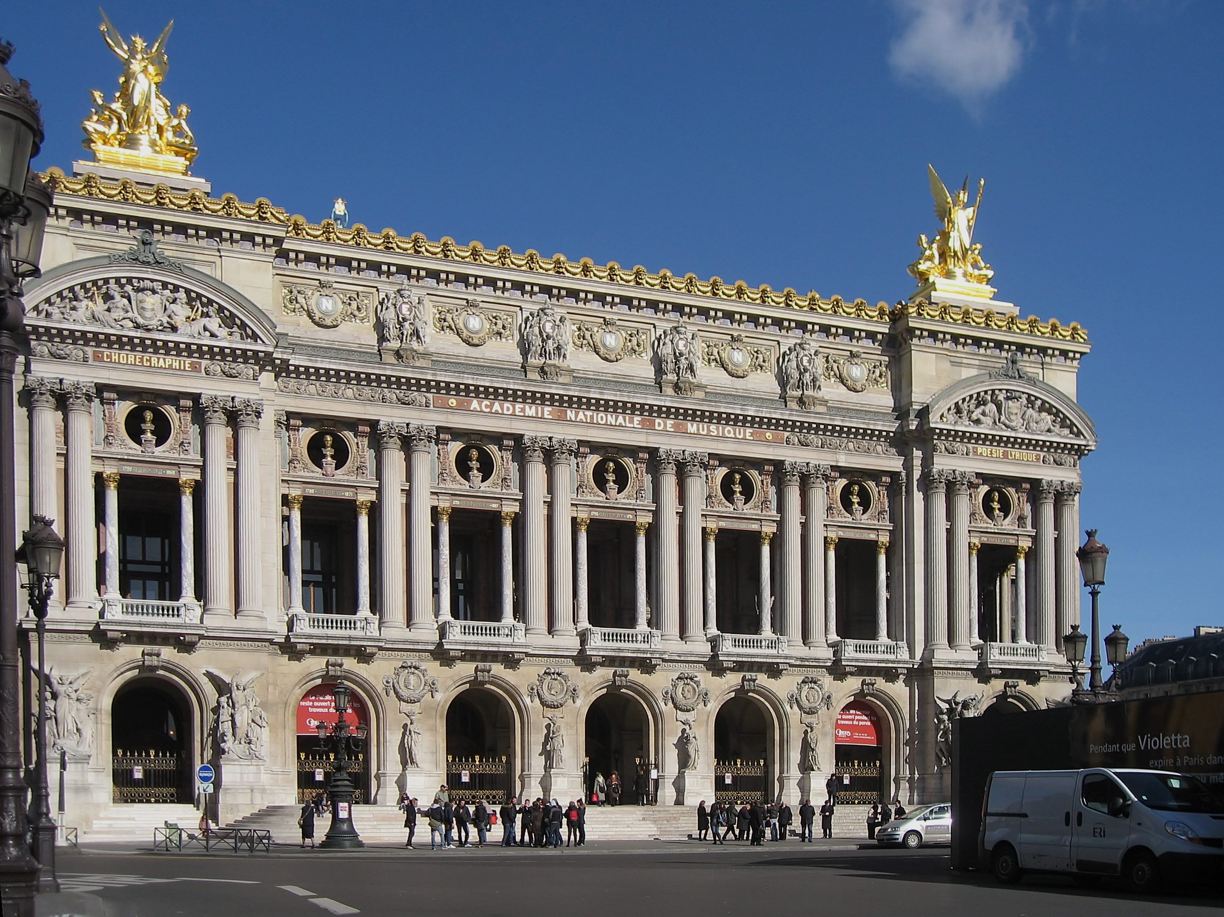 Opéra Garnier in the city of Paris/France